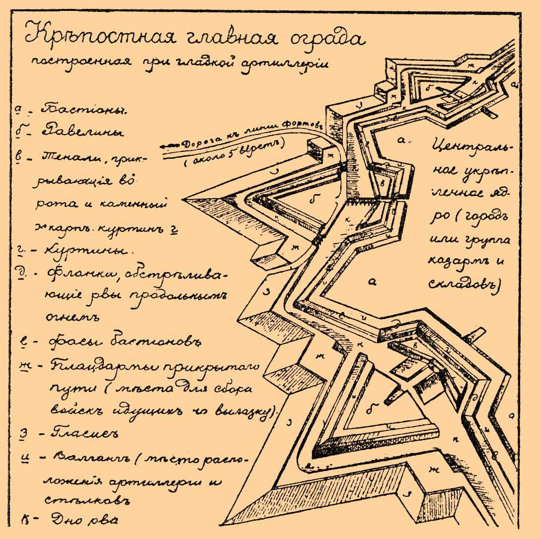 Illustration from Brockhaus and Efron Encyclopedic Dictionary (1890—1907)